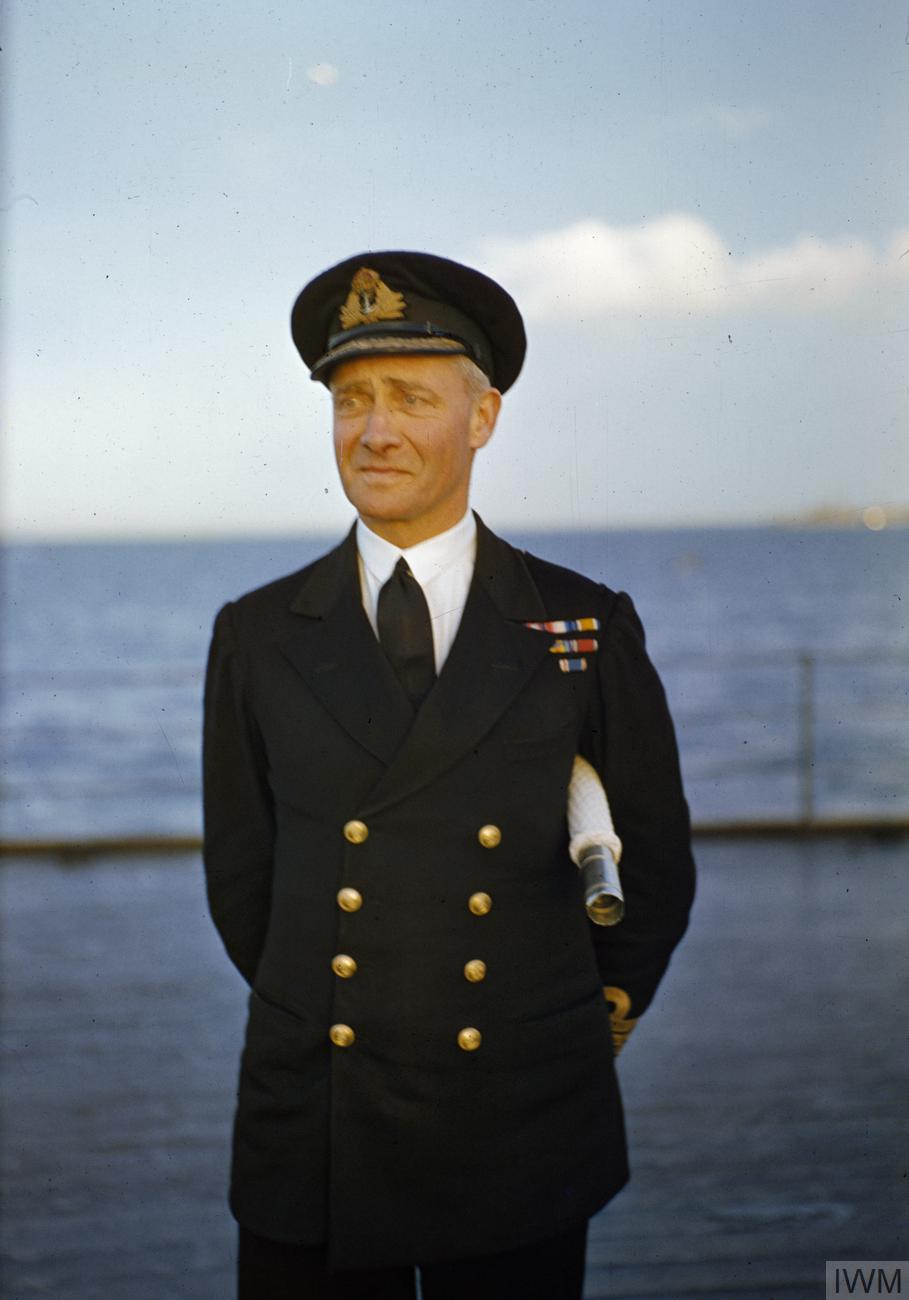 On Board HMS King George V, November 1942 Captain P J Mack, DSO, RN, Captain of HMS KING GEORGE V.